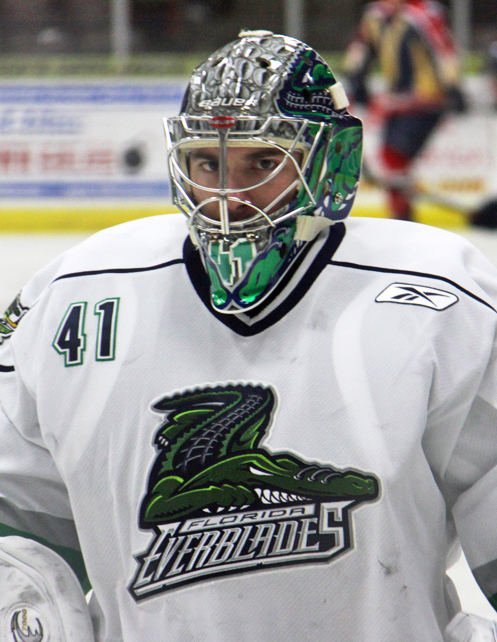 Bobby Goepfert playing for the Florida Everbaldes, photograph by HockeyBroad/Cheryl Adams - taken December 2010